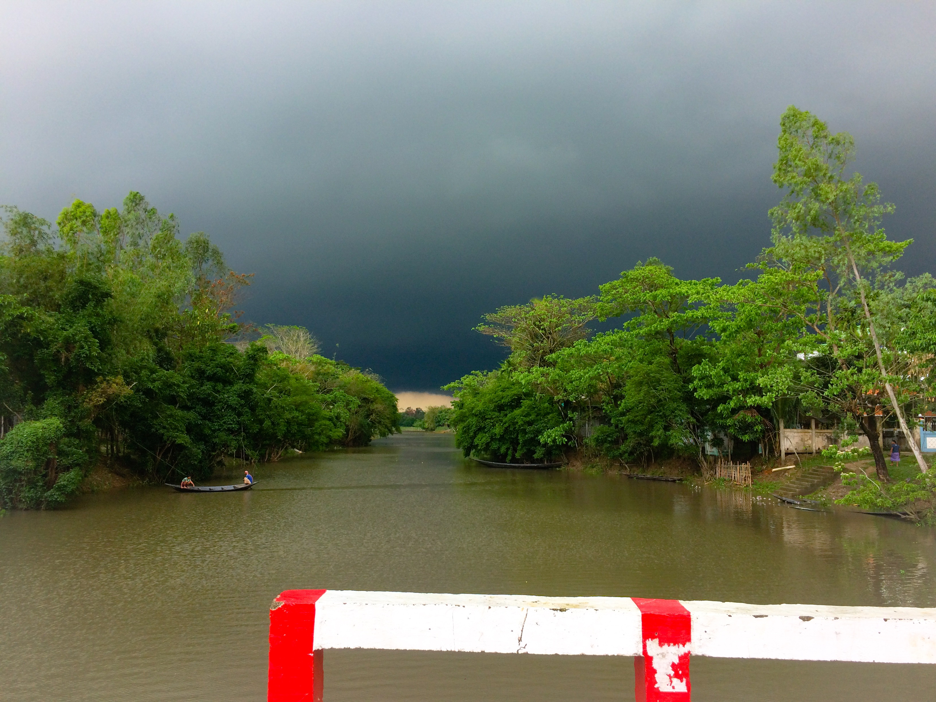 Landscape of th heart of budhrail's river ratna